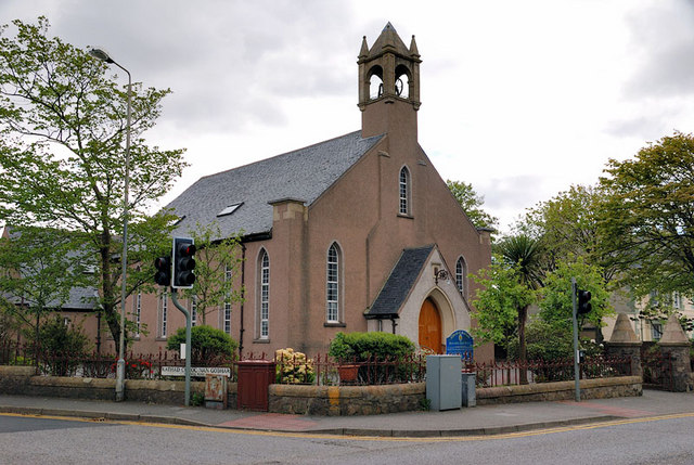 Stornoway High Church As churches go here on the island this is one of the better looking ones mainly owing to the fine bell tower. Known as the United Free High Church it's celebrating its centenary as the ministry took possession of the church building in July 1909. It sits at the junction of Matheson Road and Goathill Road and is viewed from the junction of Matheson Road and Church Street.